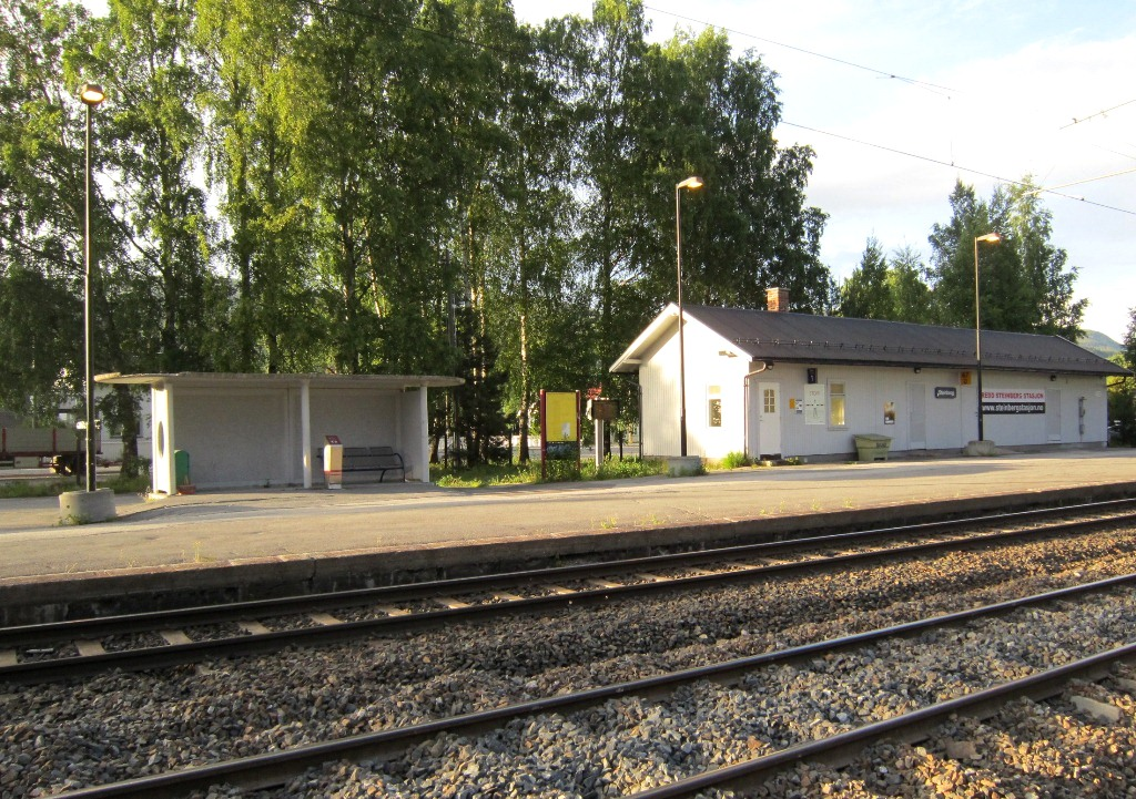 Steinberg station on the Randsfjord line